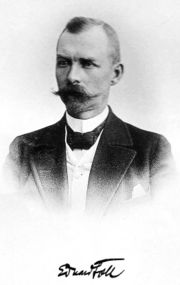 Eduard Gustav von Toll (1858-1901), Baltic German explorer and geologist